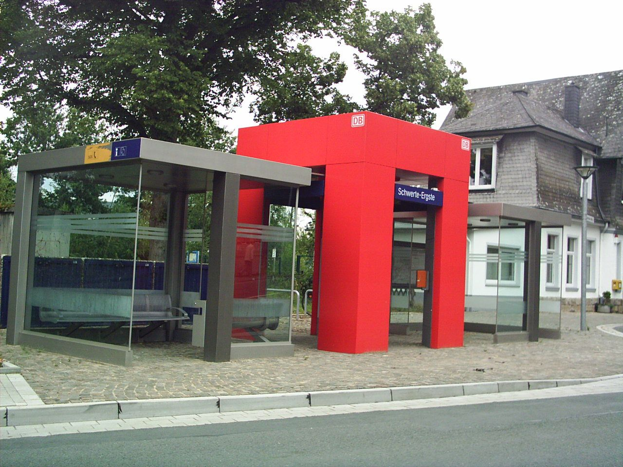 Ergste station with info point, Schwerte, Germany check usage